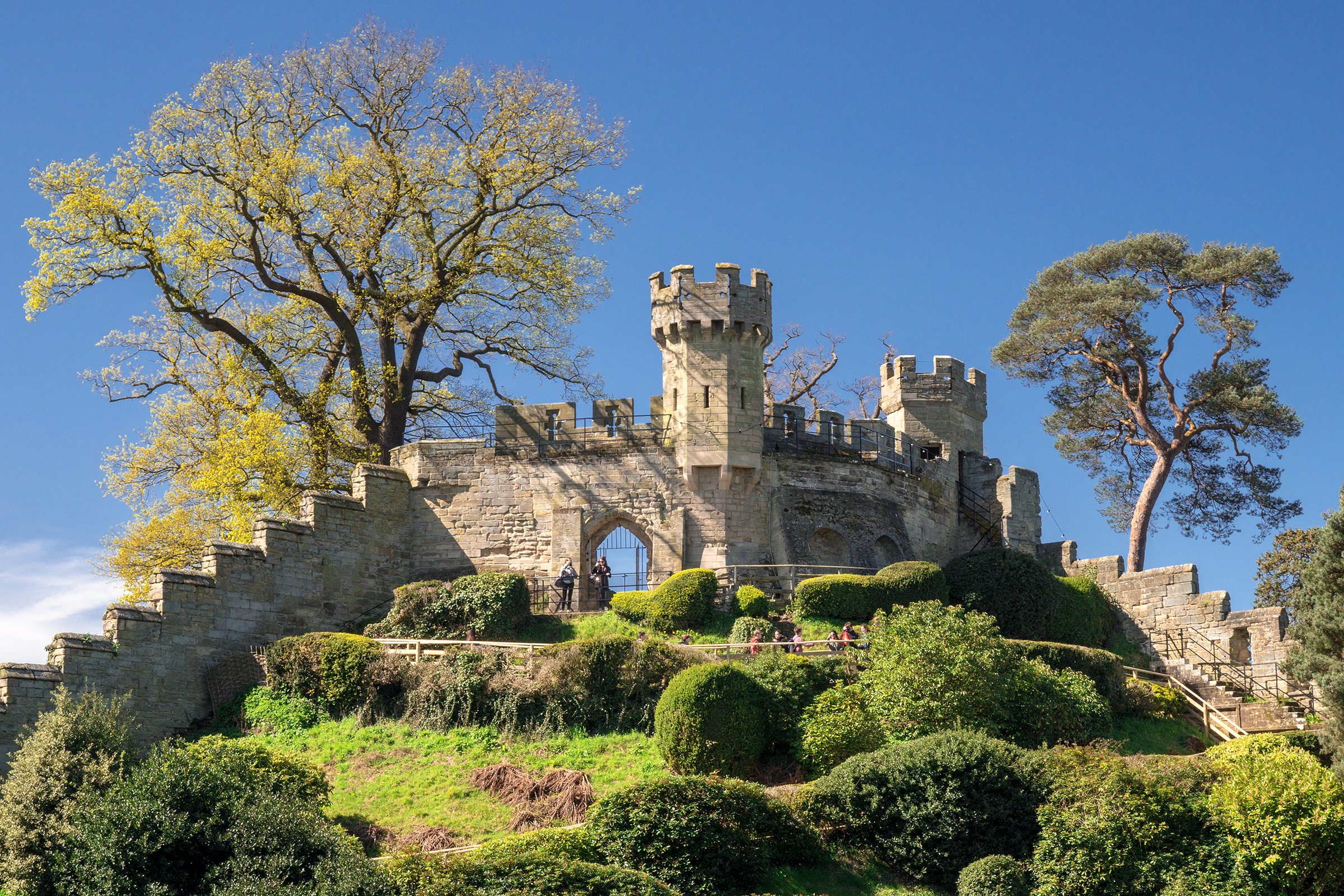 Warwick Castle, Warwickshire, England, a popular tourist destination